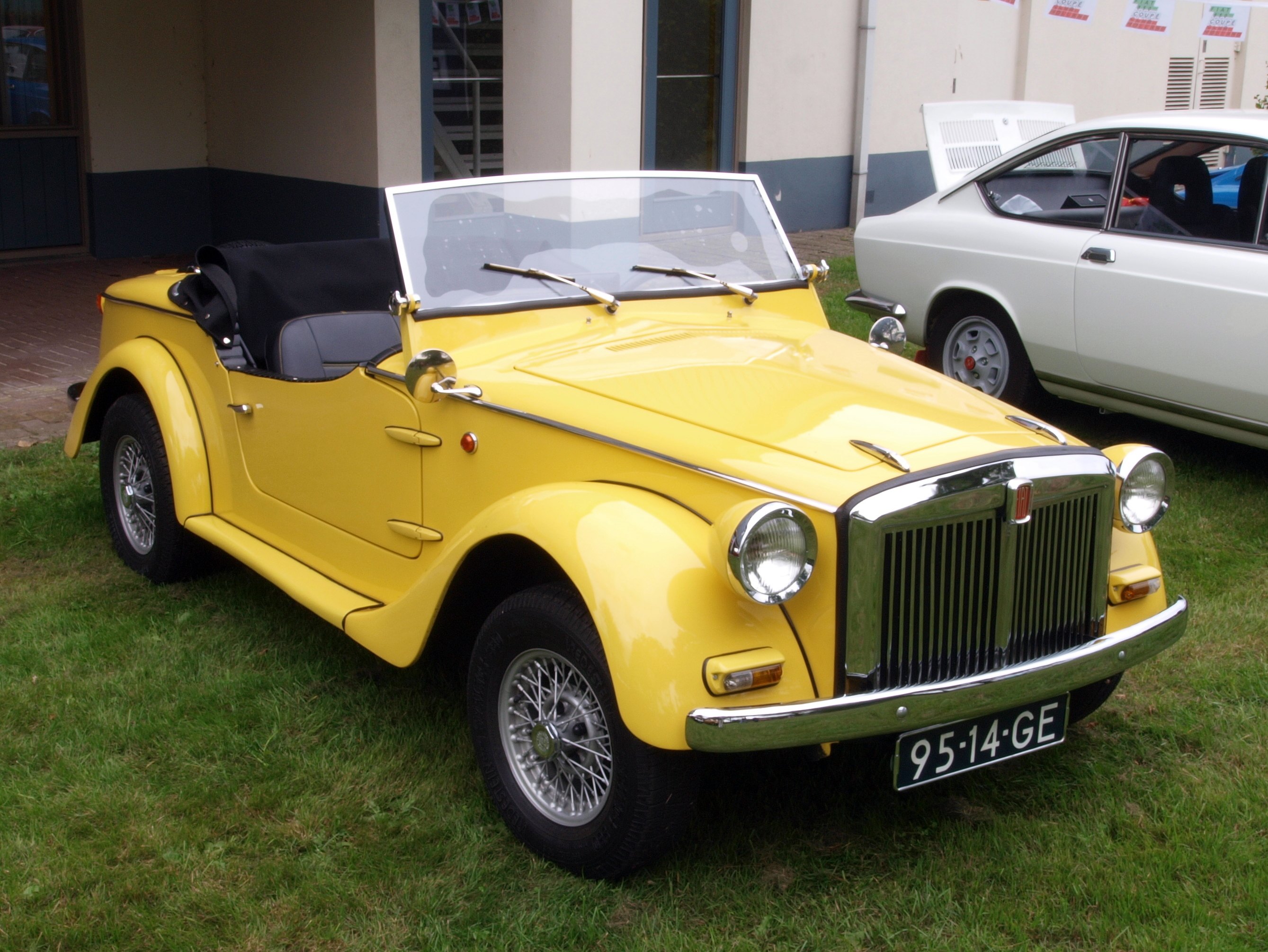 Photographed at the 2010 Autotron Classic car meeting, Rosmalen, The Netherlands. OLYMPUS DIGITAL CAMERA